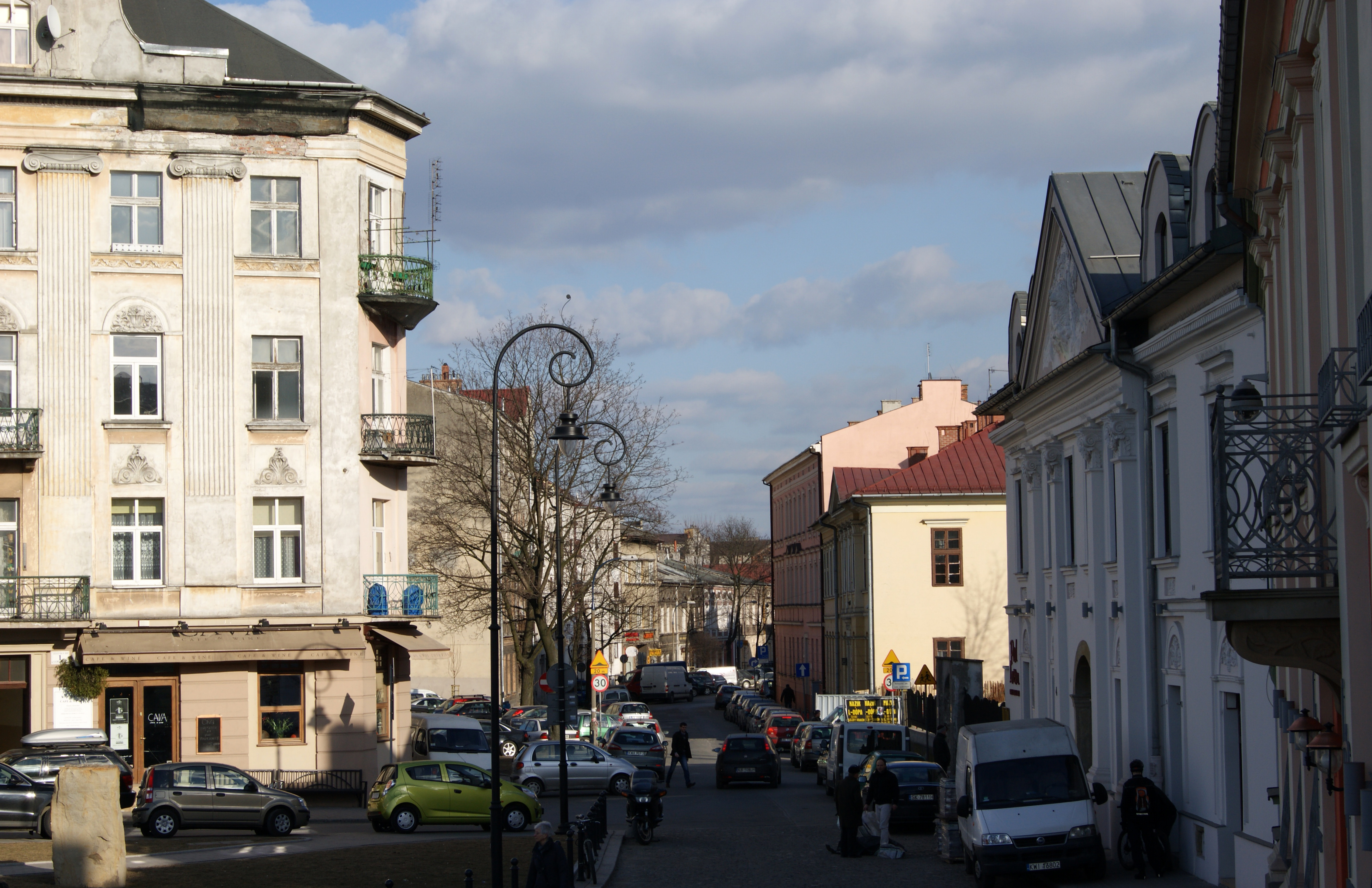 Jozefinska street,Podgorze,Krakow, Poland